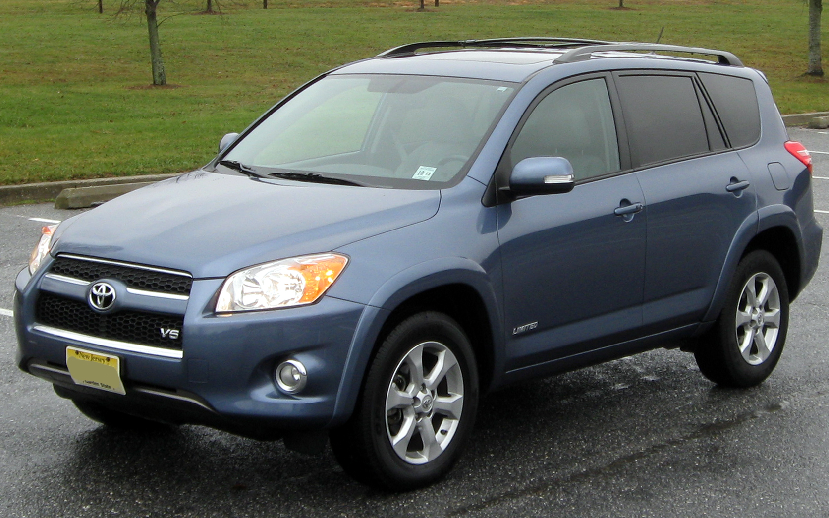 2010 Toyota RAV4 photographed in Highland, Maryland, USA.